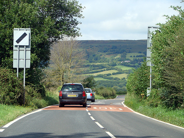 Exiting Tretower to the north